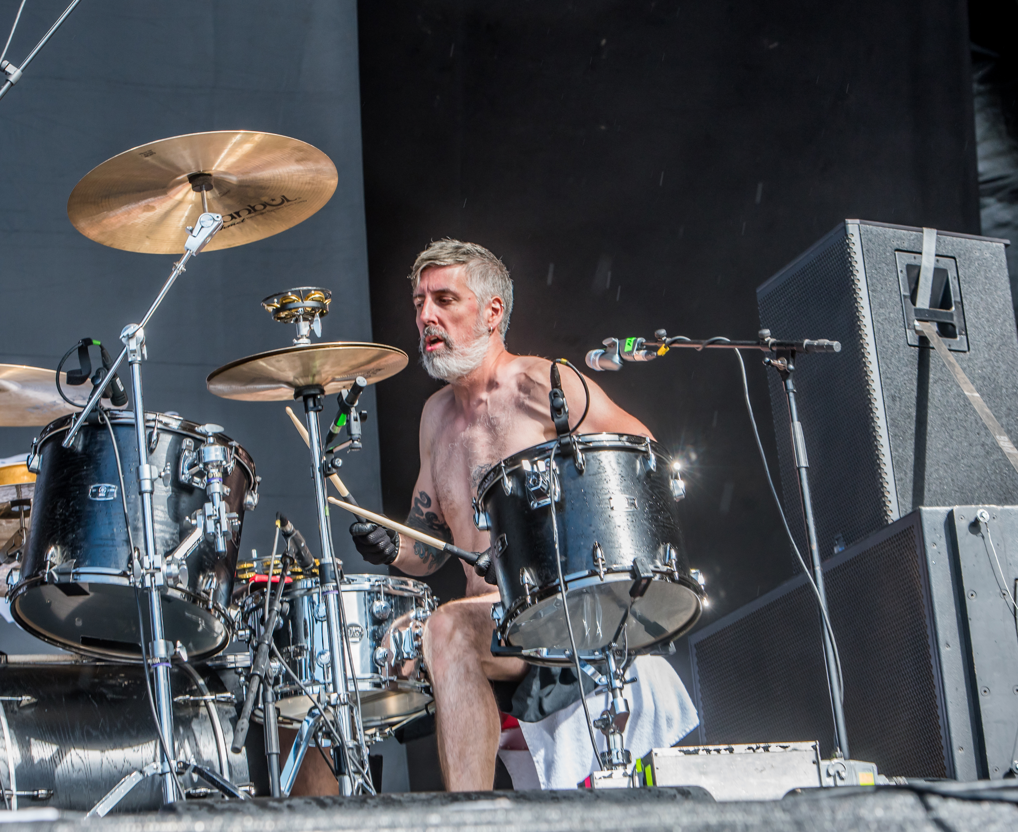 Mantar playing at Reload Festival 2018